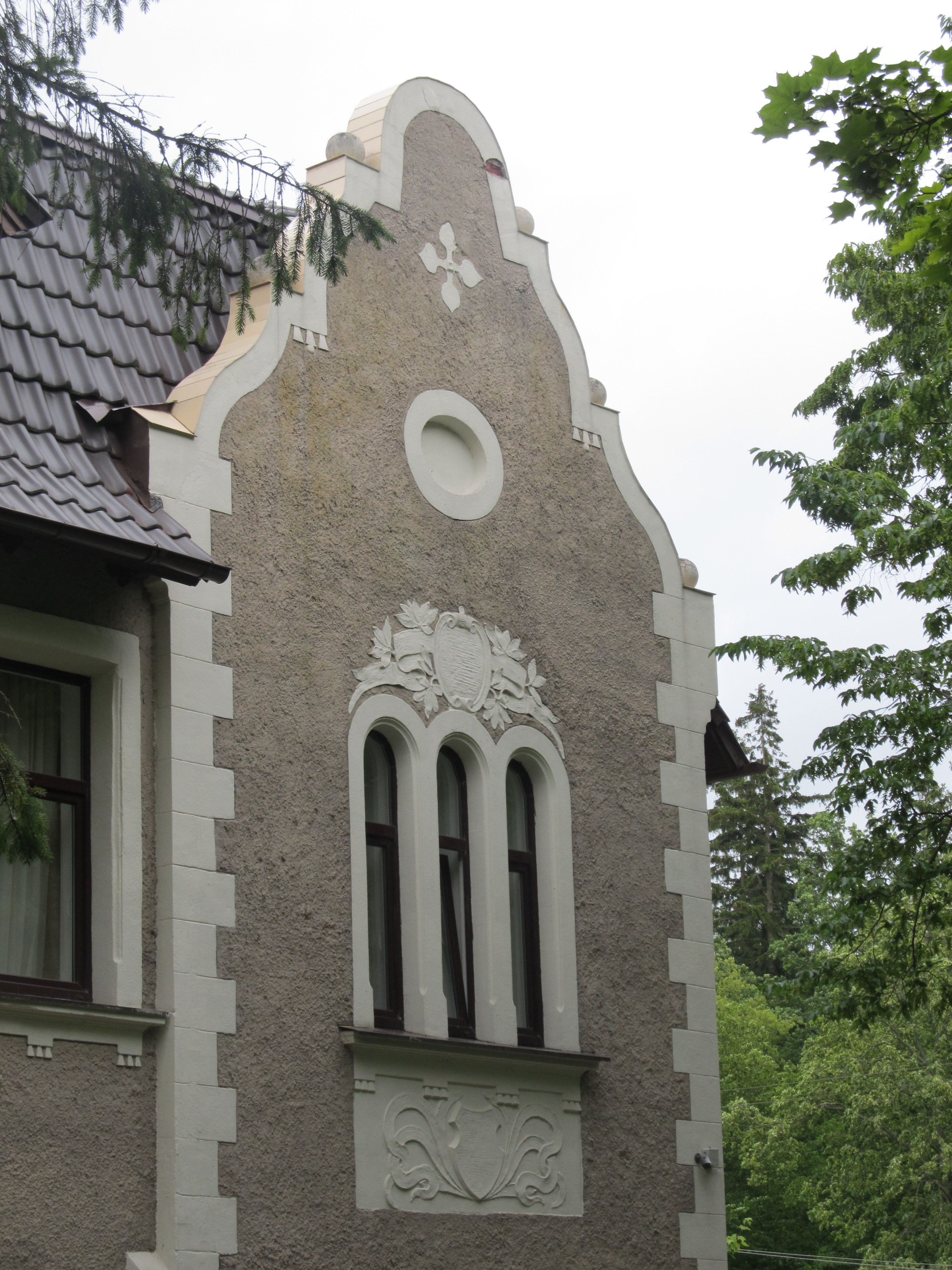 Bade-Verwaltung Georgenswalde, now Lastochkino Gnezdo Hotel in Otradnoje